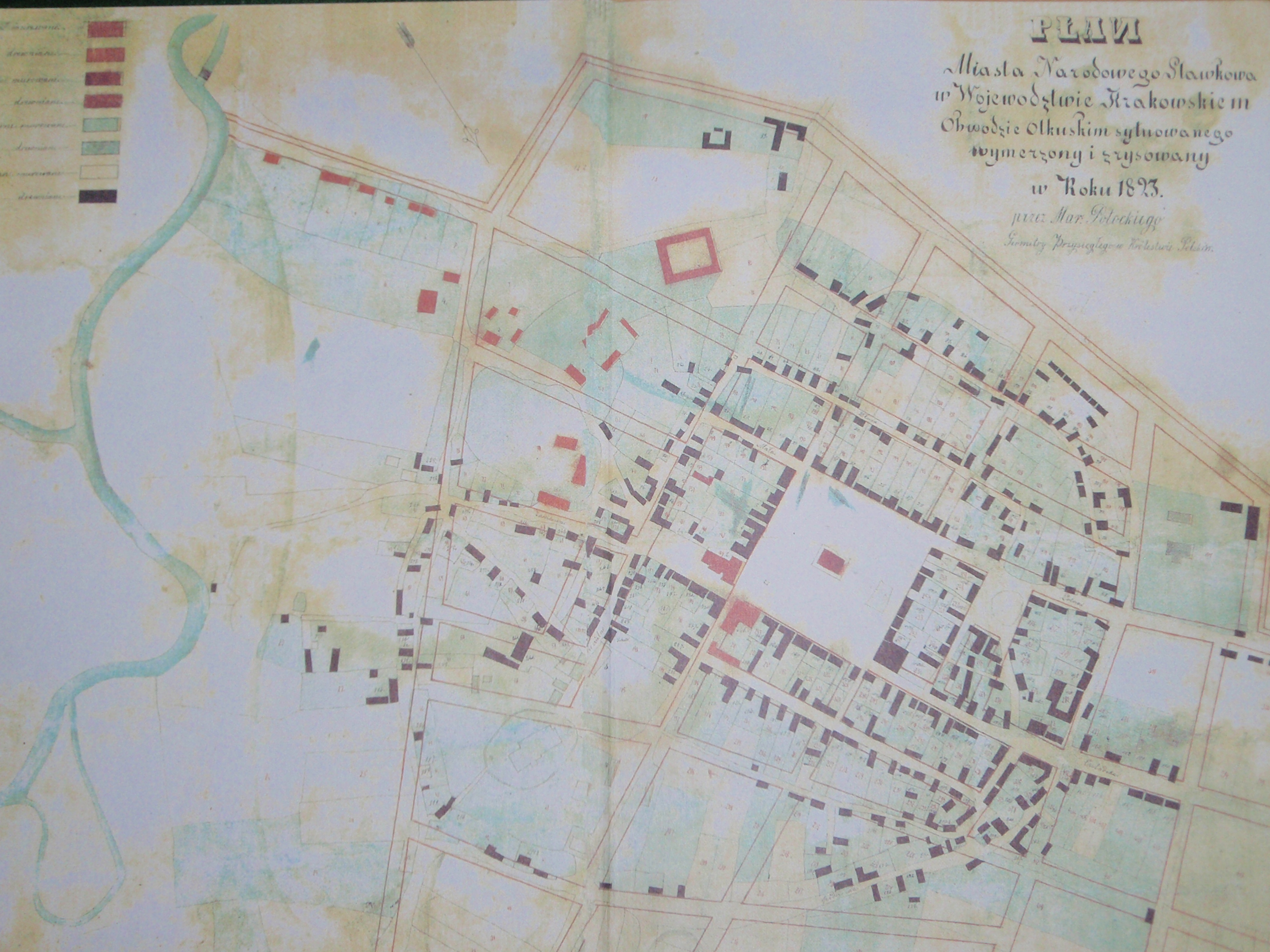 Map of Slawkow (Poland), 1823